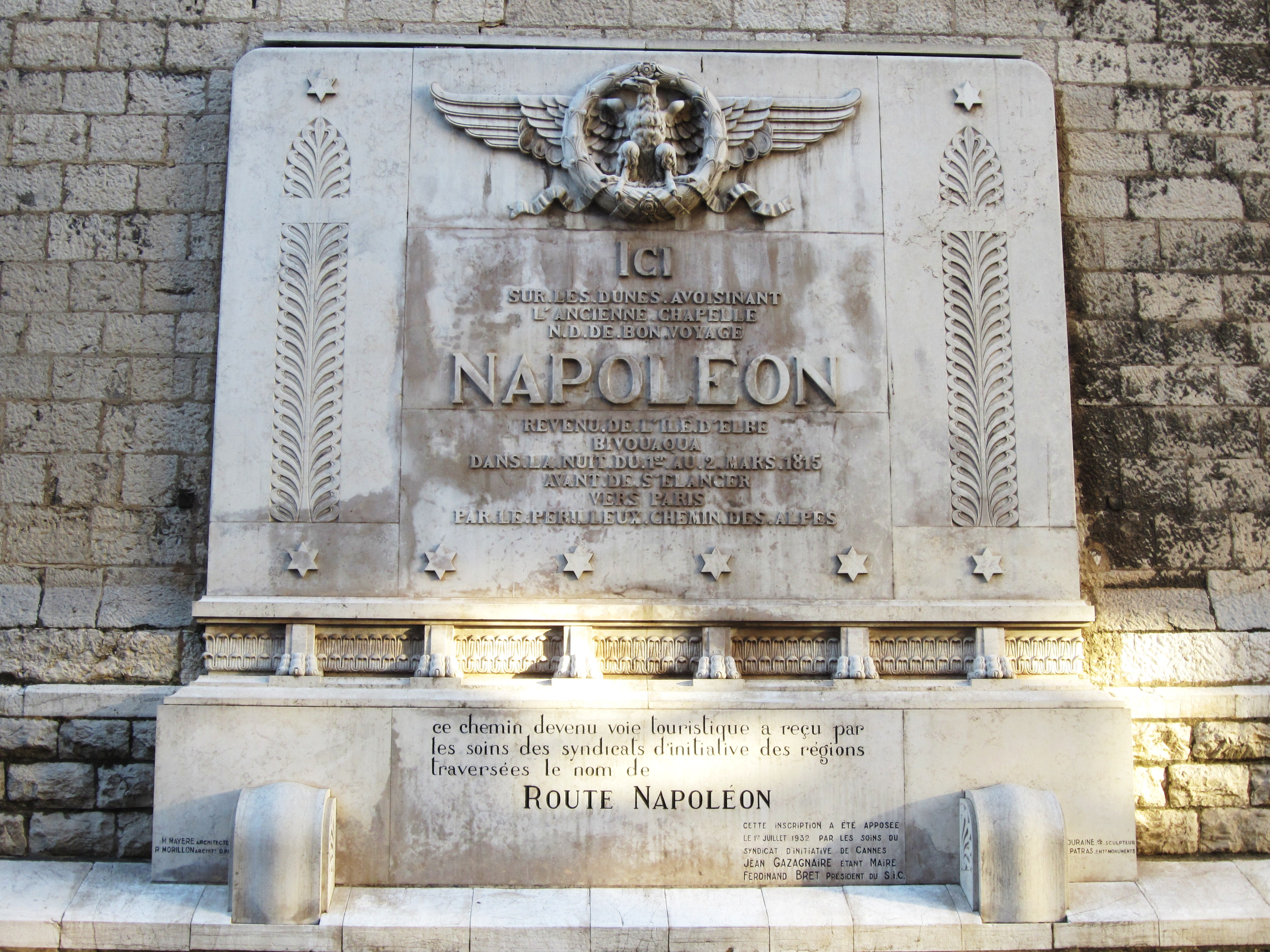 Description plaque commemorative napoleon Cannes Date13 December 2011Sourcemon appareil photoAuthorAimelaimePermission (Reusing this file) plaque commemorative napoleon Cannes